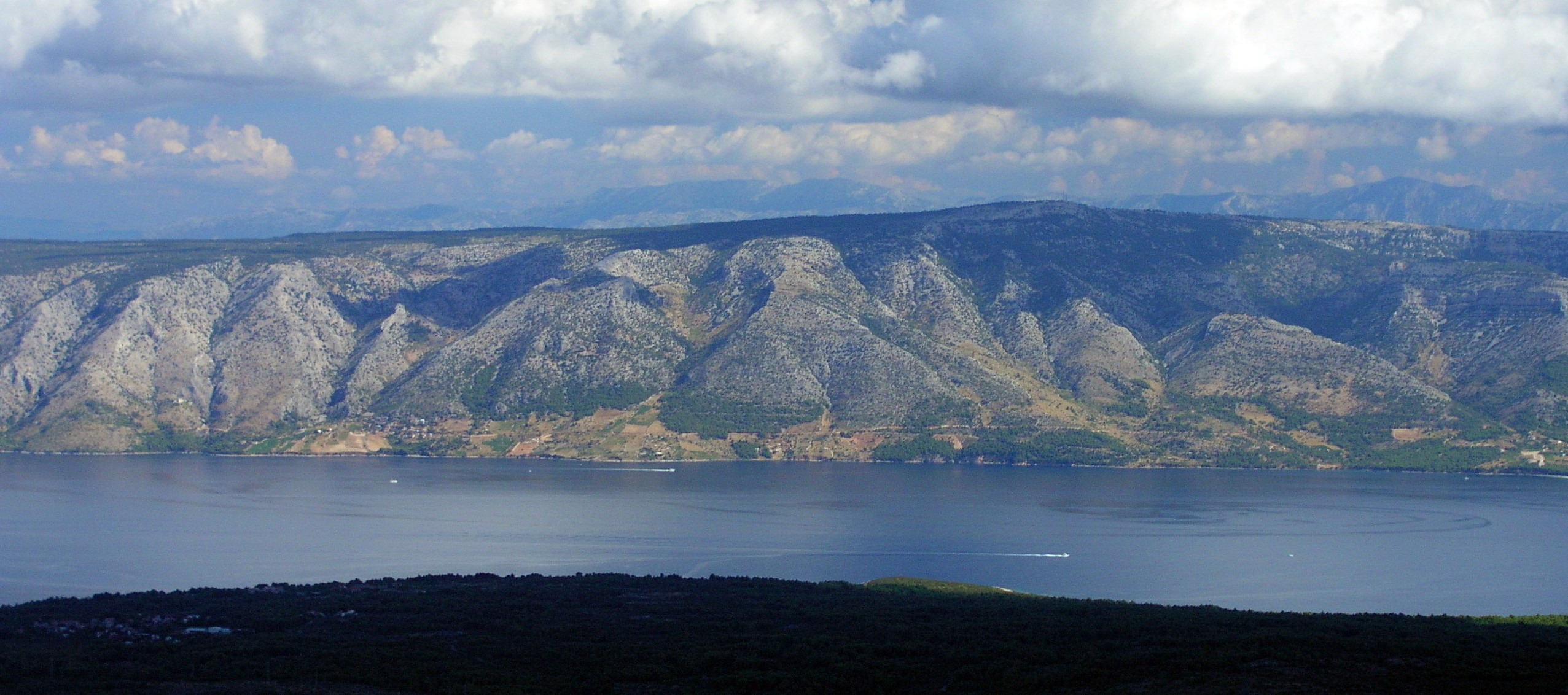 Brač, view from St. Nicolas, the highest peak of Hvar island